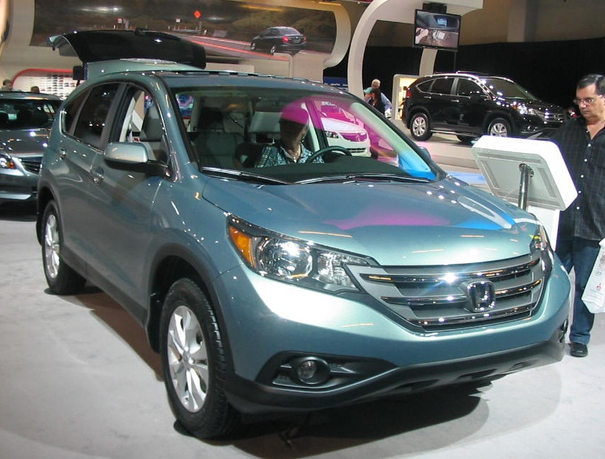 2012 Honda CR-V photographed in Montreal, Quebec, Canada at the 2012 Montreal International Auto Show.